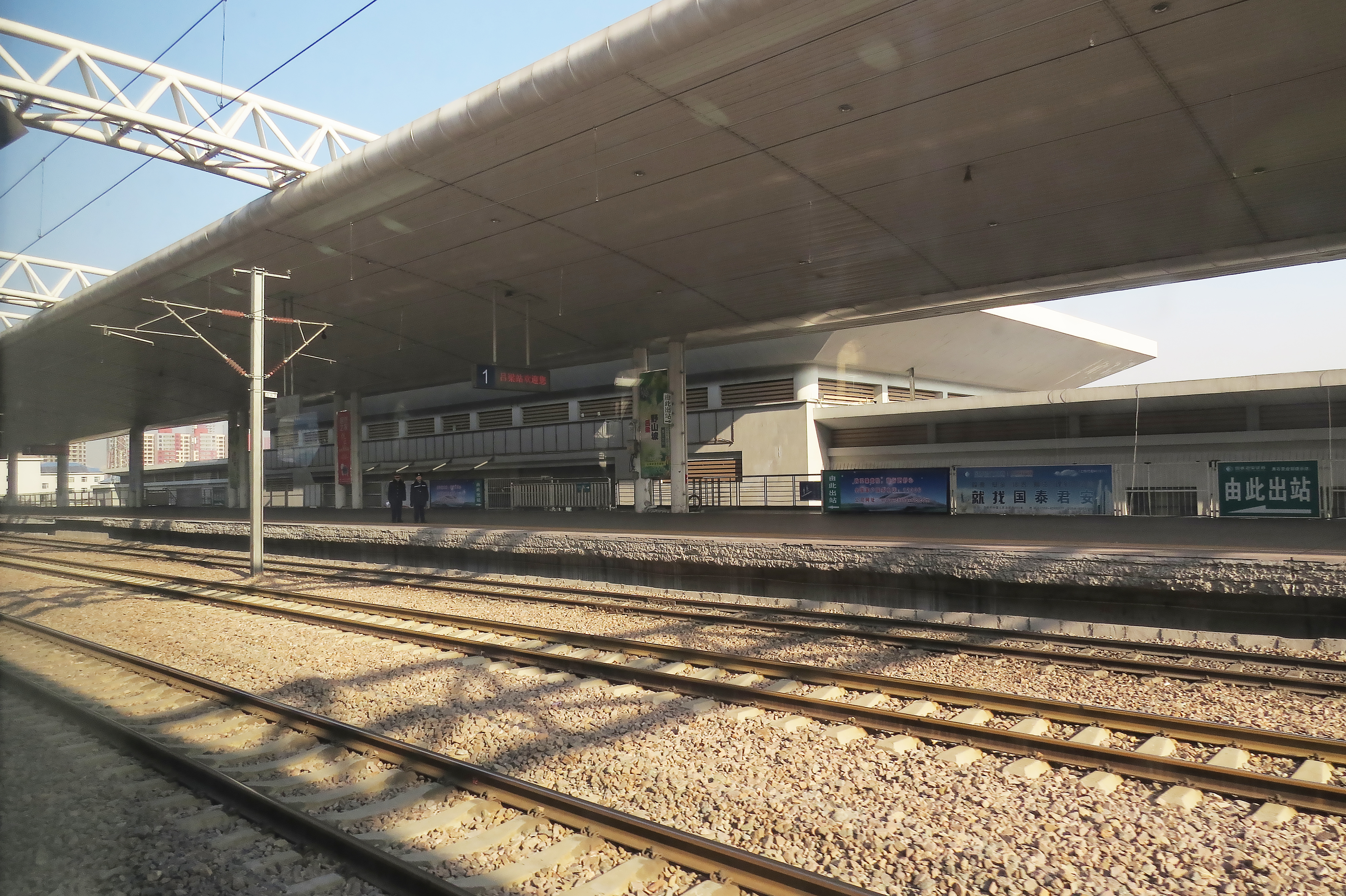 Z70 has a short stopover here.